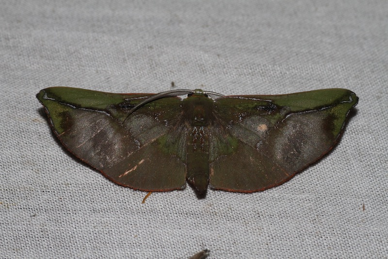 Omiza lycoraria, male (Geometridae: Ennominae: Hypochrosini) Bornoe, Trusmadi area, 2100 m